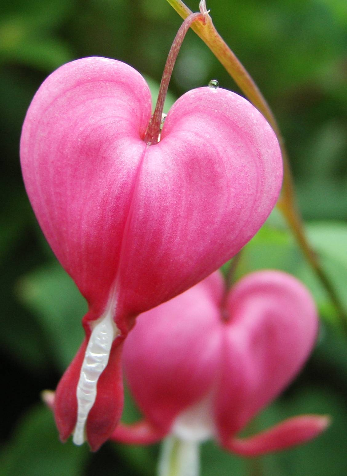 Dicentra spectabilis, single flower